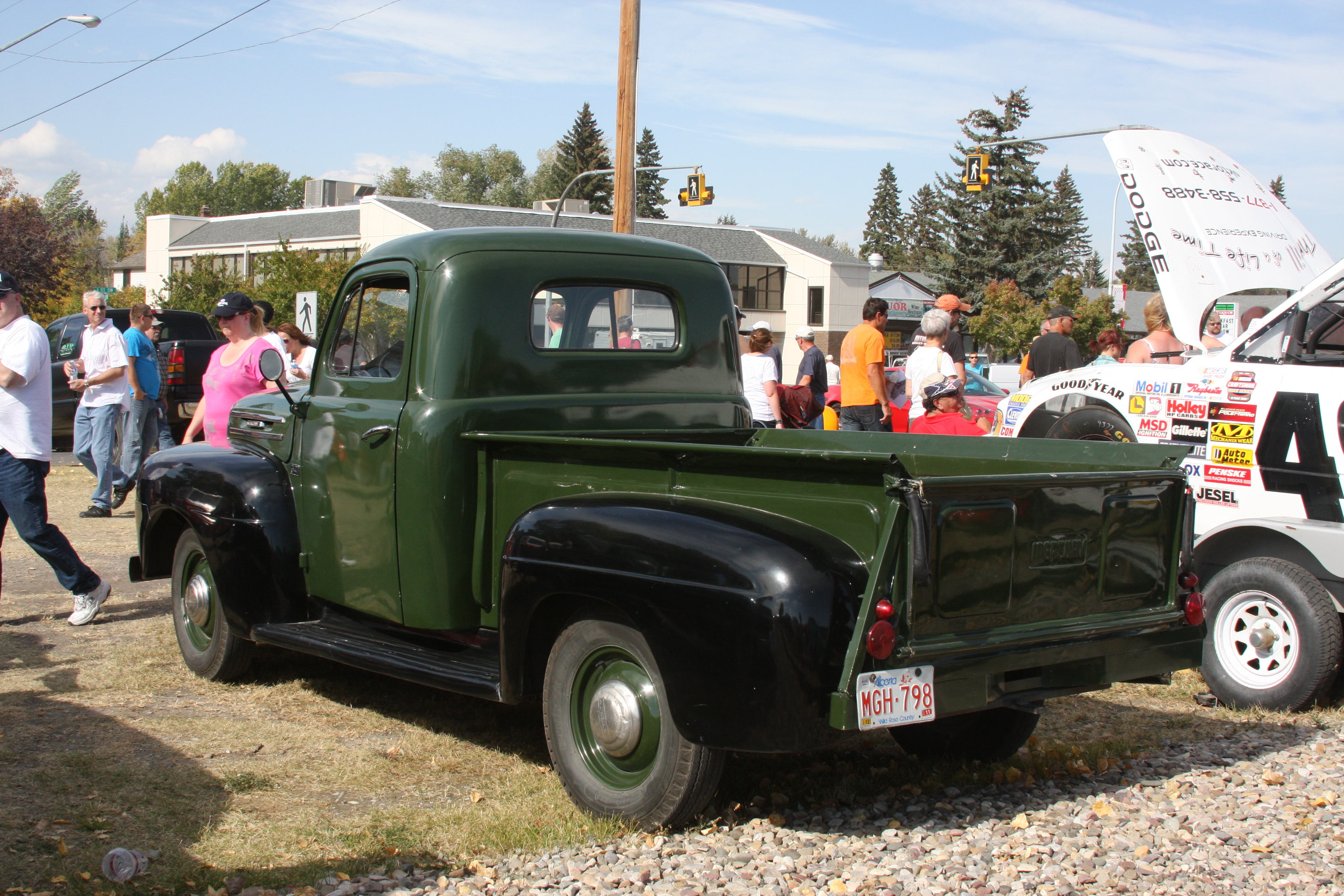 Two tone green and black Canadian 1950 Mercury M47 truck